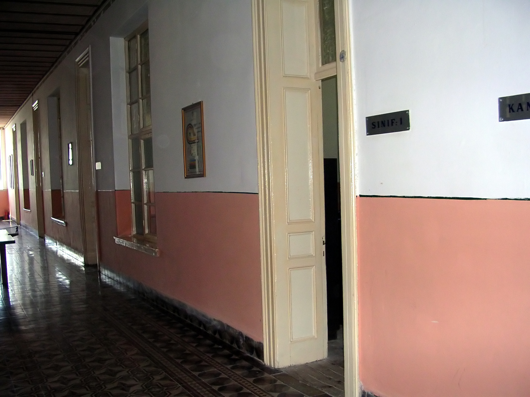 Corridor connecting classrooms at the Theological School of Chalki.